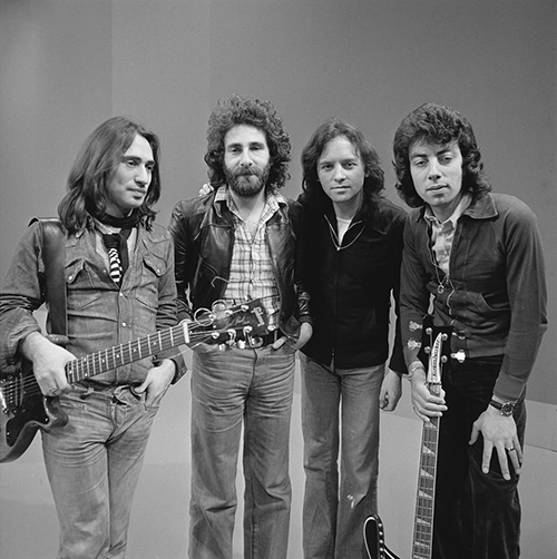 10cc in AVRO's TopPop (Dutch television show) in 1974